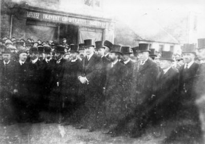 Tranent High Street, 1862, 40 coal miners open Tranent Co-operative Society's first shop